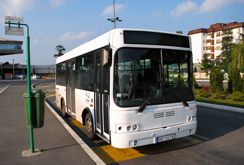 Ikarbus IK-107 Banbus on city line 24